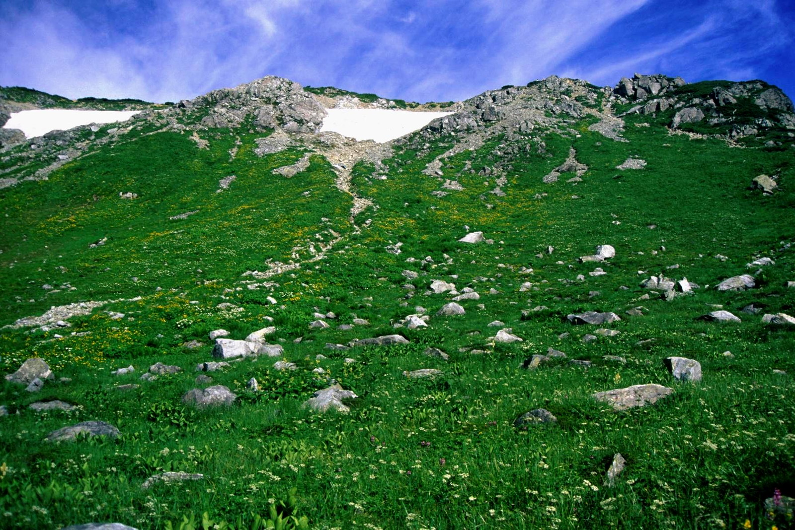 Mount_Mitsumatarenge and Alpine plant